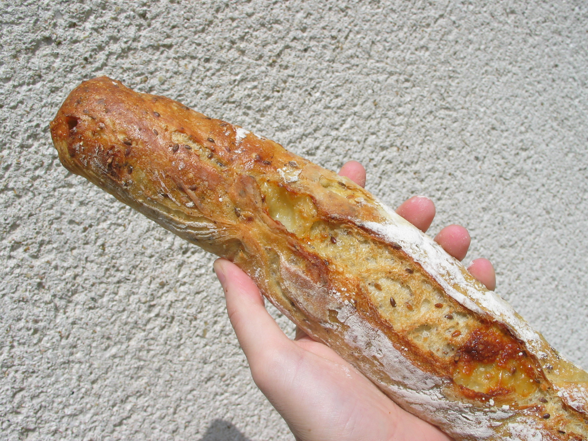 French baguette